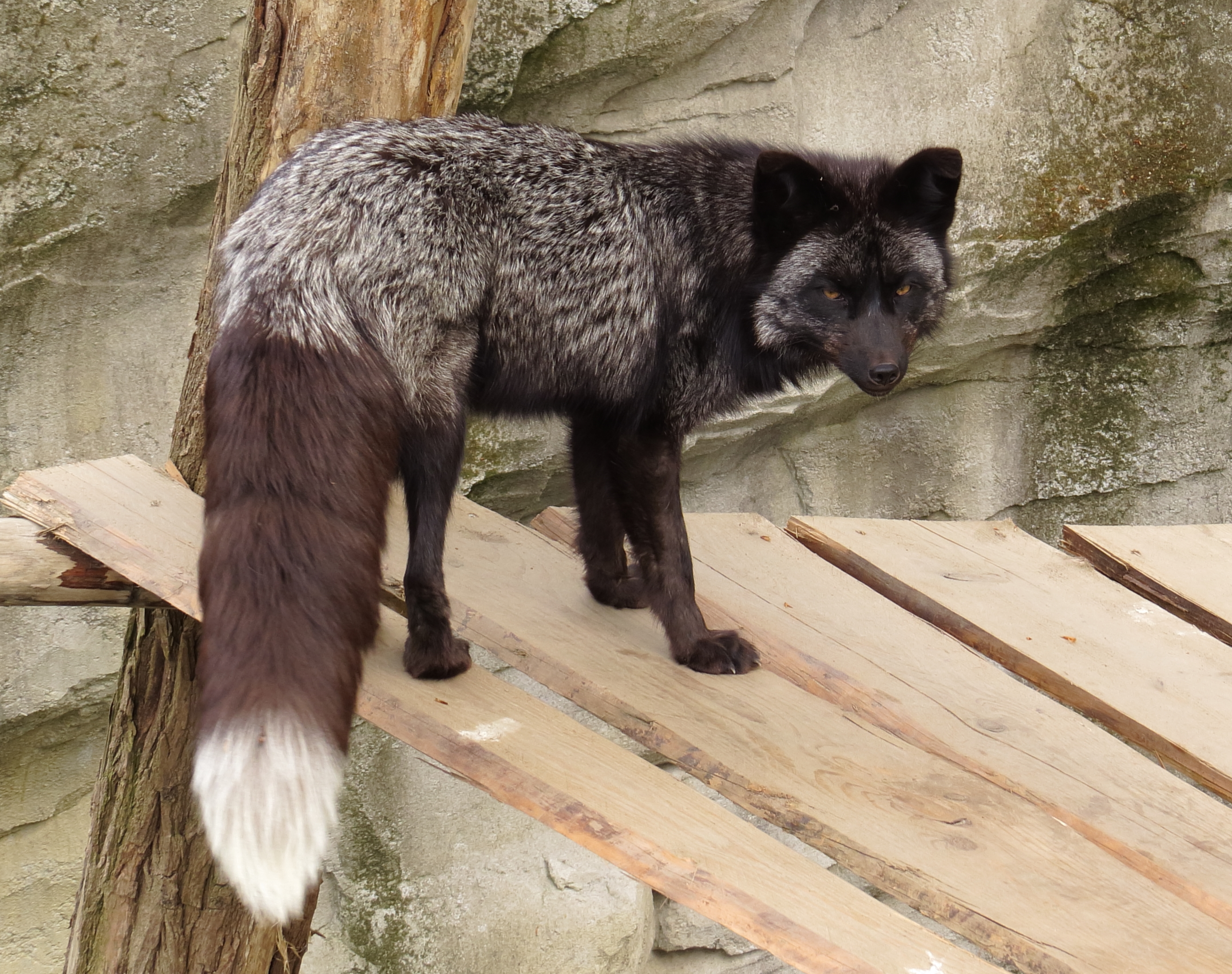 Silver fox in the zoo of Osnabrück, Germany